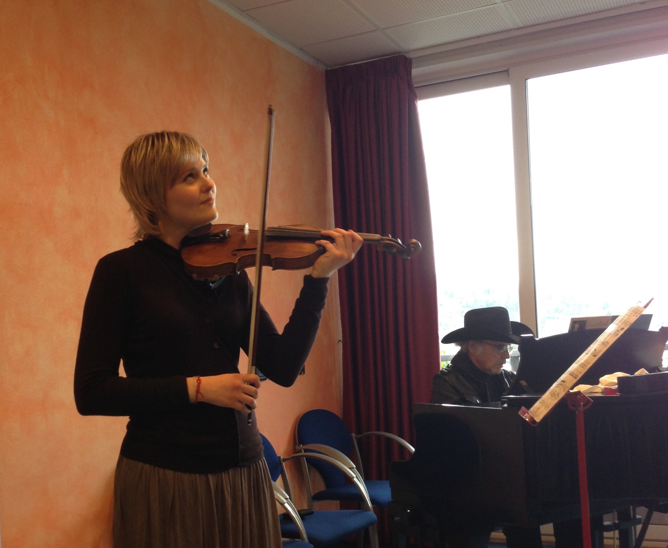 Carlotta Nobile (1988 + 2013) and Martin Berkofsky (1943 + 2013), volunteers of "Donors of Music" playing in the oncology ward of Carrara Hospital on April 9, 2013.